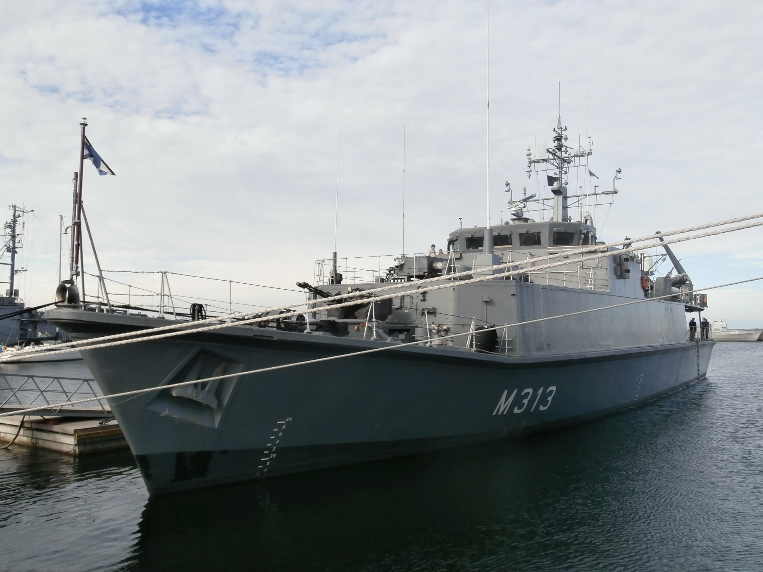 M313 Admiral Cowan at pier in Lennusadam, Tallinn 5 October 2013